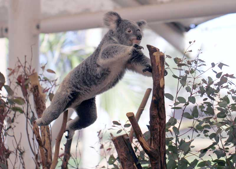 The picture of a koala jumping to another branch at the Lone Pine Koala Sanctuary